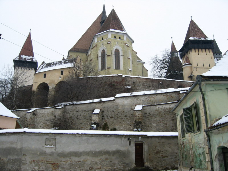 Made by me, December 2005.